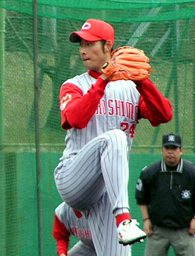 Takaya Kawauchi, pitcher of the Hiroshima Toyo Carp, at Nichinan Tempuku Baseball Stadium.